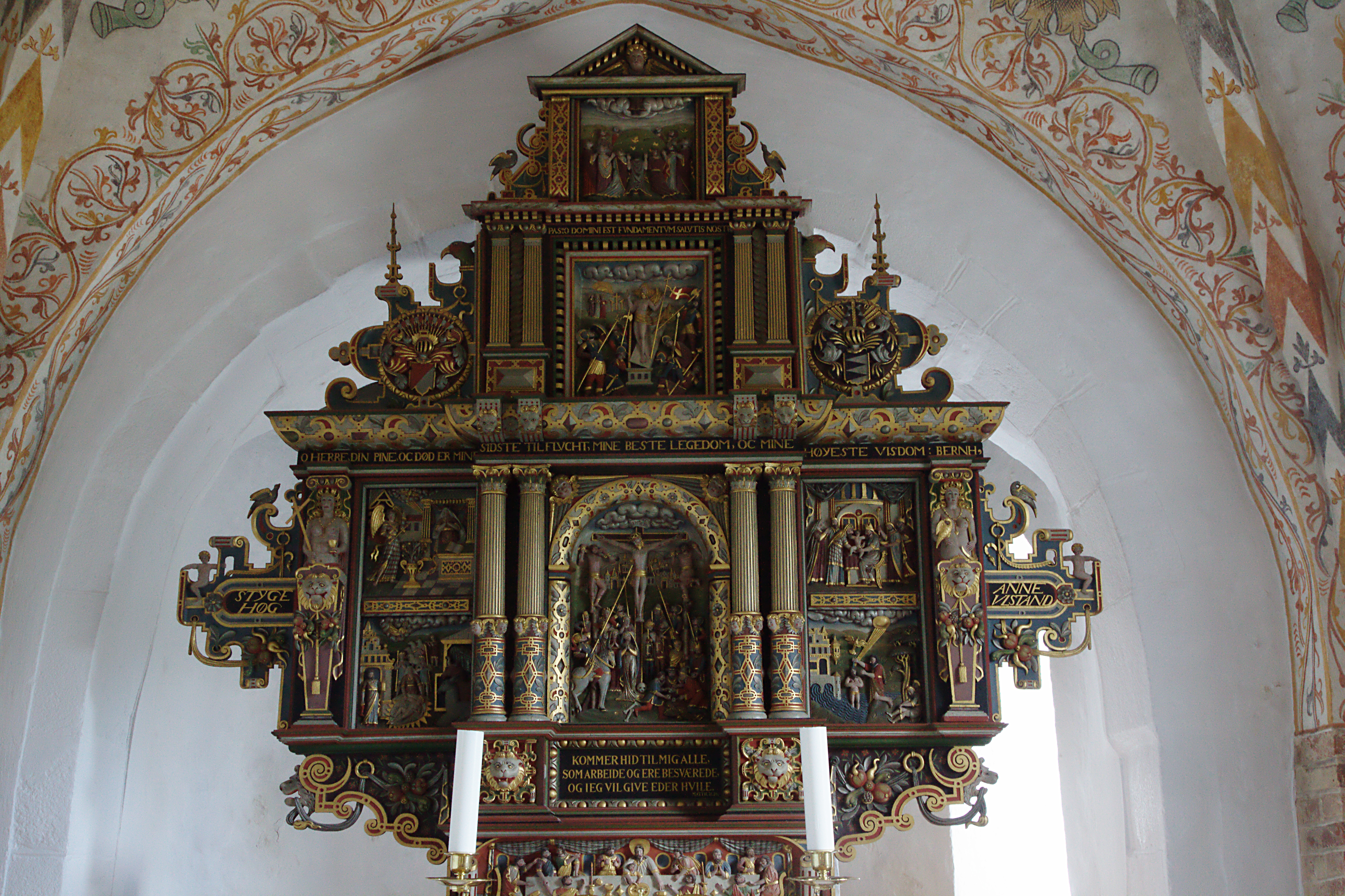 Altar in Sulsted Kirke just north of Aalborg, Denmark